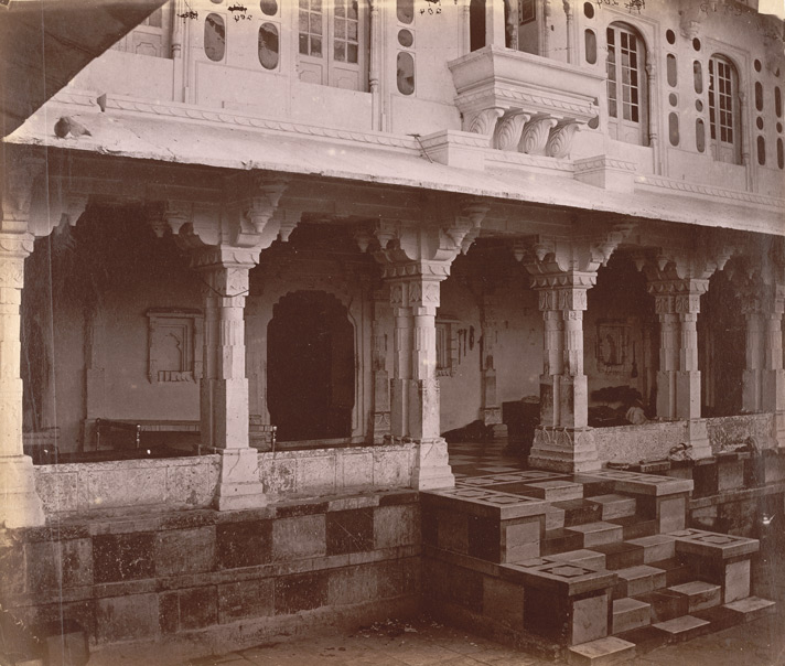 Rai Angan or King's Porch, City Palace, Udaipur